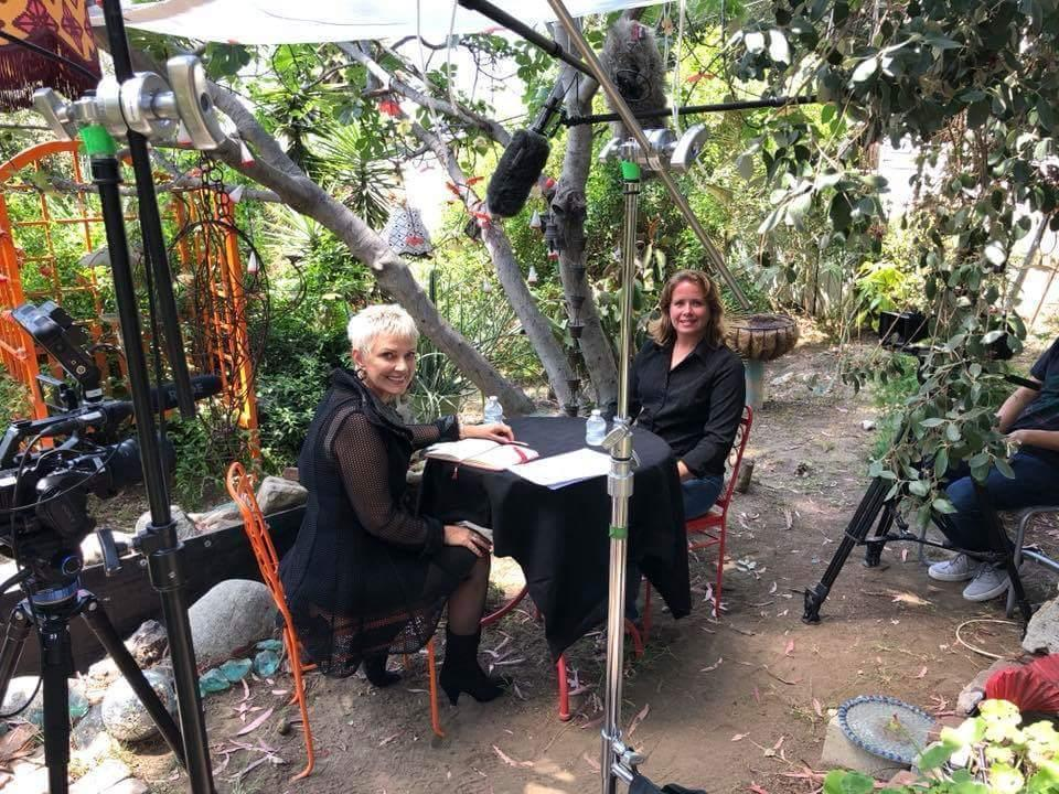 Filming Creatrix